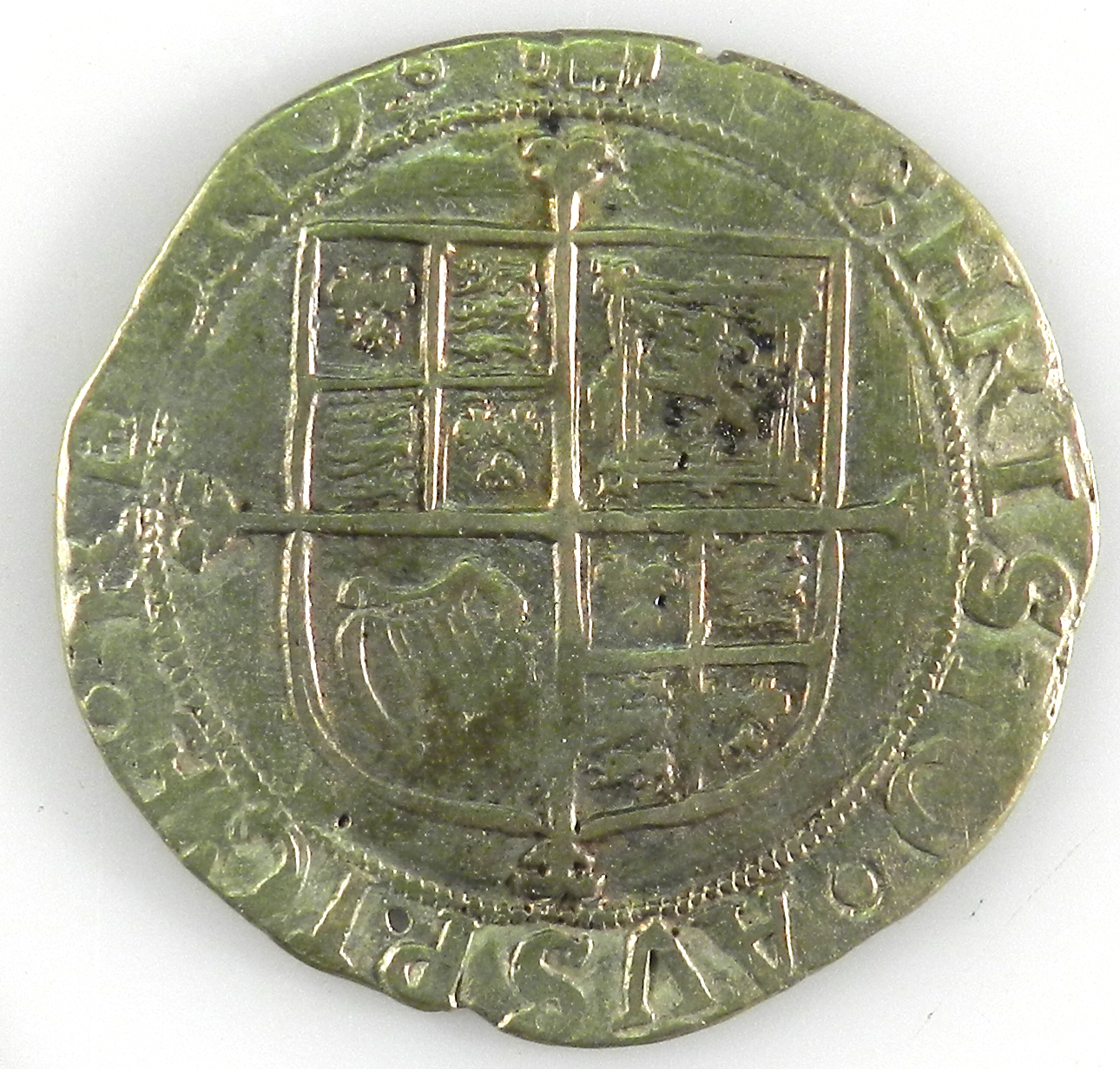 Reverse (back) of a struck counterfeit Shilling of Charles I of England, showing arms on cross. Of type: North 2229 cf. From Pot A of the Middleham Hoard